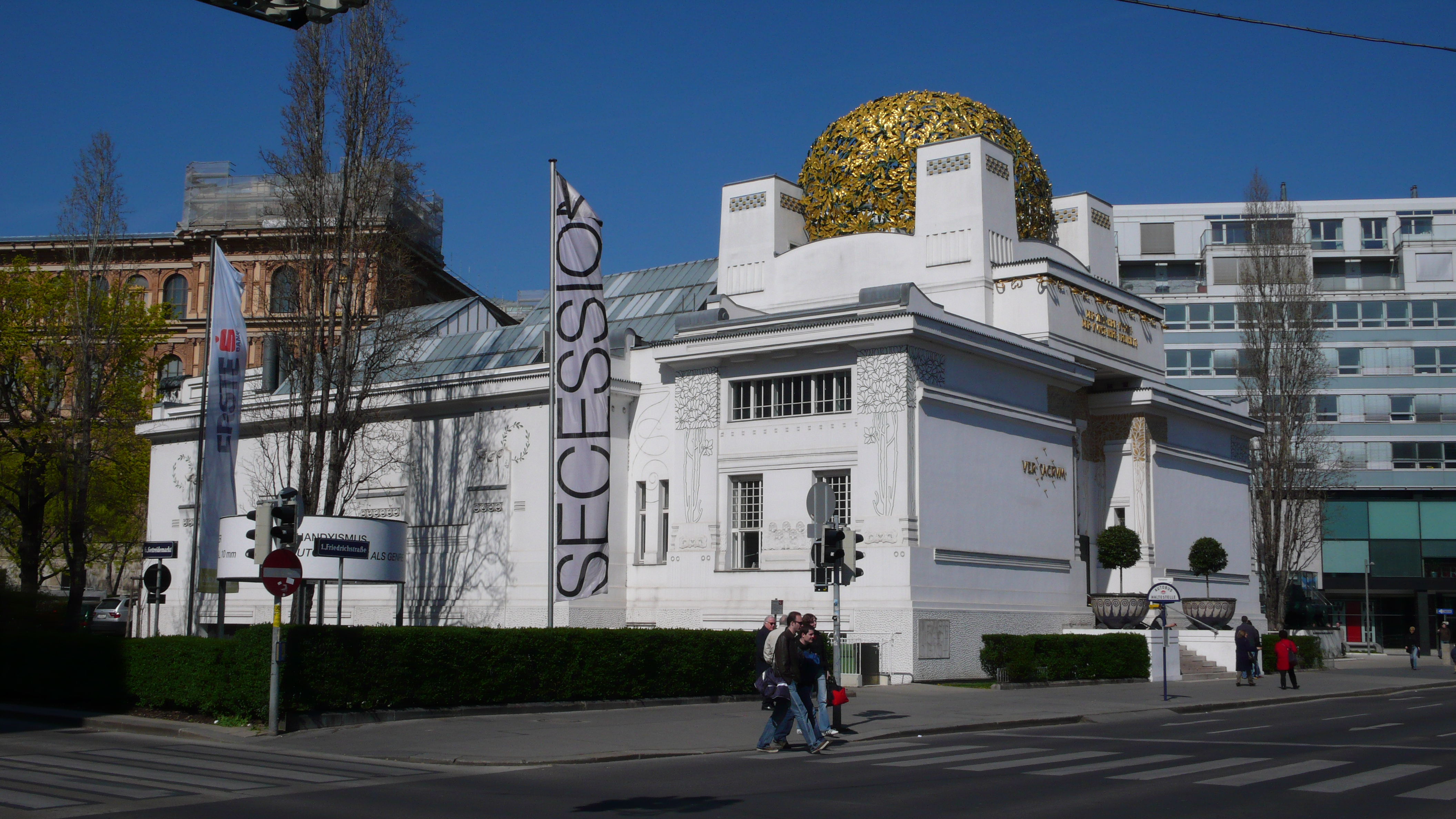 Austria, Vienna, Secession hall